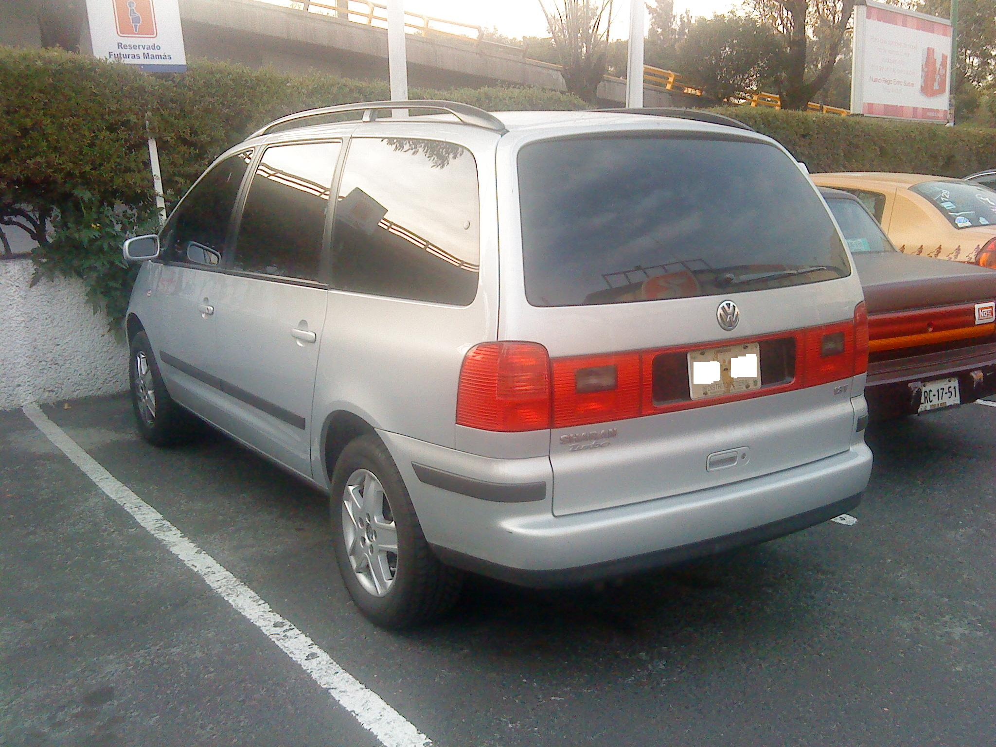 A 2003 Volkswagen Sharan 1.8T Comfortline in Mexico City